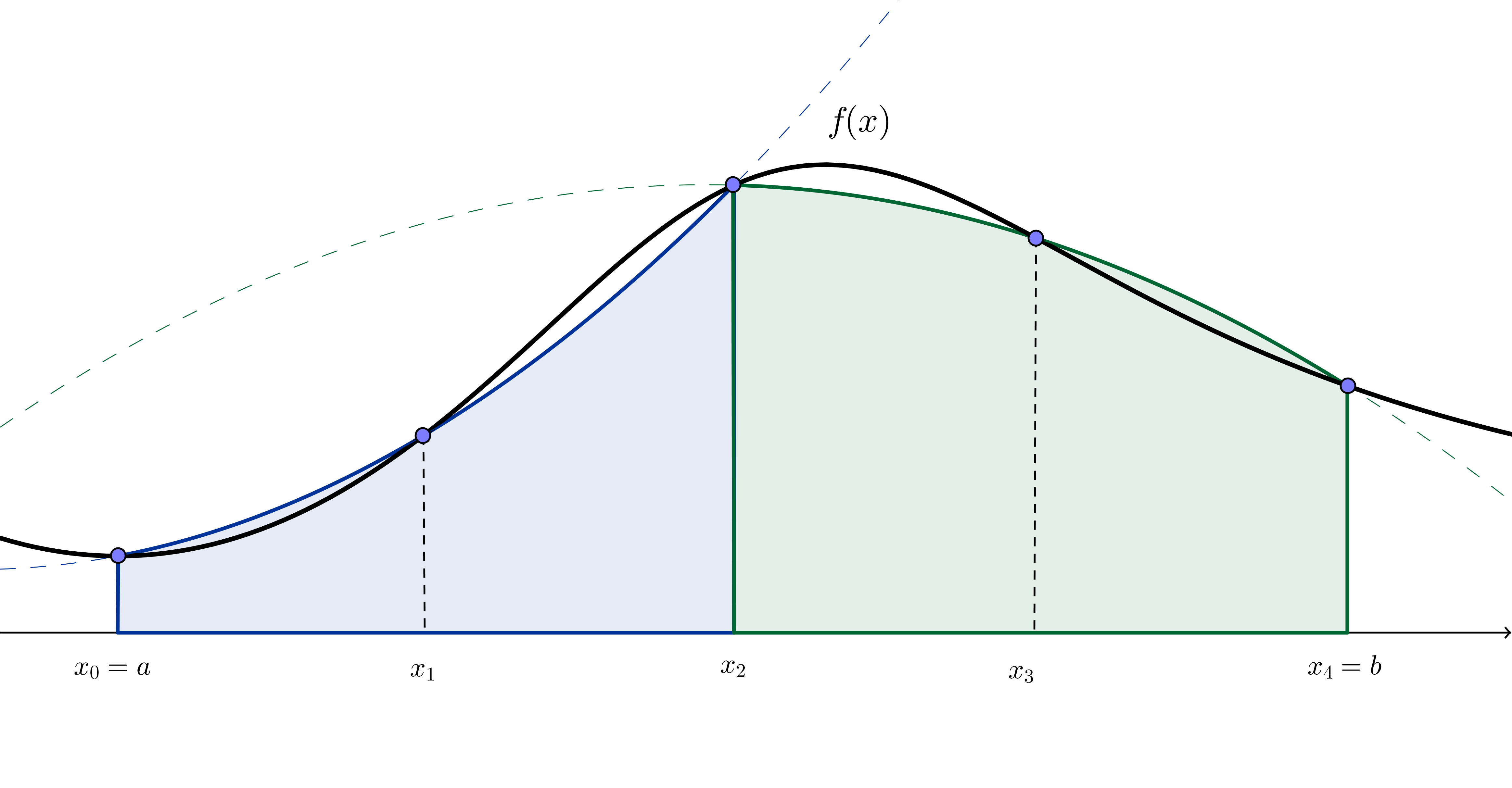 Illustration of the composite simpson's rule for numerical integration